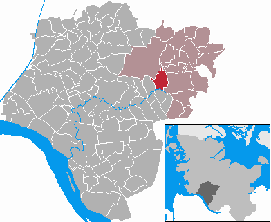 This map shows the area of the municipality Mühlenbarbek in the Kreis (district) Steinburg, Schleswig-Holstein, Germany.